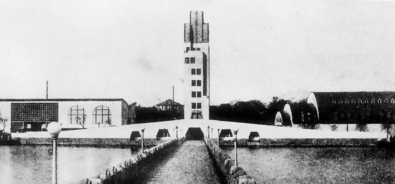 Horiguchi Sutemi: memorial Tower, Peace Exhibition, 1922, Tokyo.